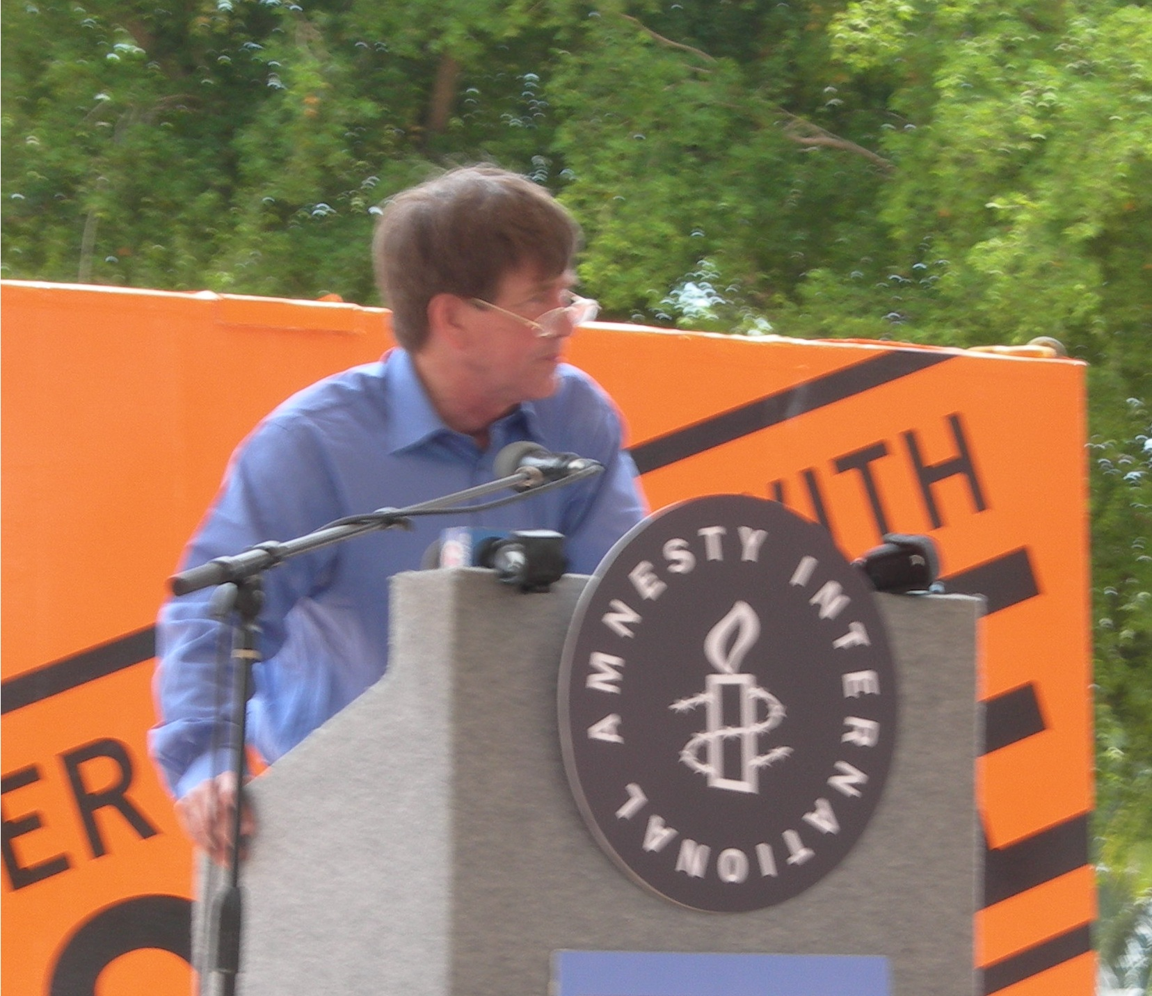 Larry Cox, Executive Director of Amnesty International USA, at protest in Miami in May, 2008.